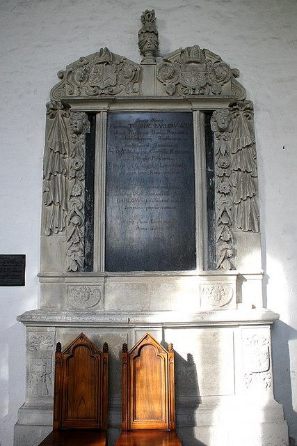 'The Bishop of Buckden' Memorial in St.Mary's chancel to the controversial Thomas Barlow, Bishop of Lincoln 1675-1691. Unquestionably of a brilliant mind and great academic achievement, he was disparagingly referred to as 'The Bishop of Buckden' as he much preferred the Bishop's Palace at Buckden to his residence in Lincoln. He died at Buckden on October 8th 1691, aged 85, having only visited Lincoln twice during his 16 years as Bishop.